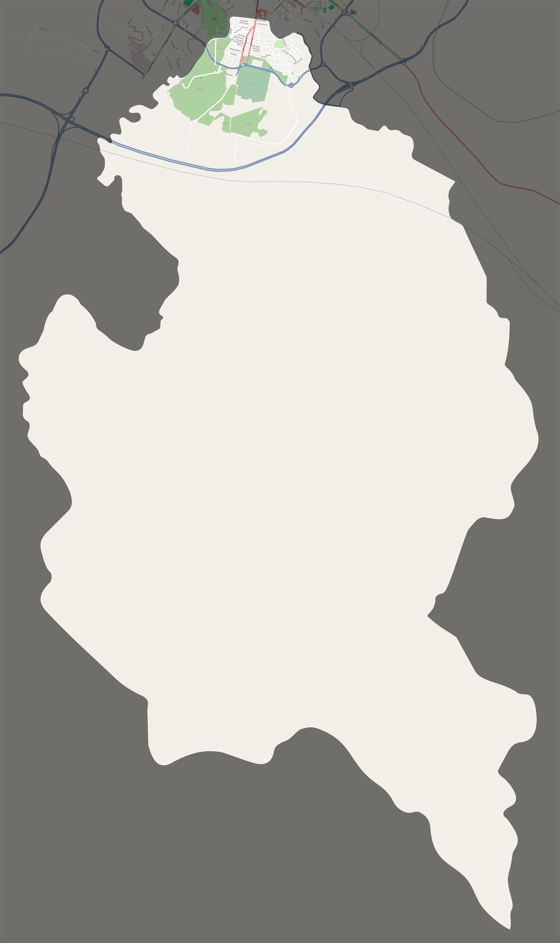 This map may be incomplete, and may contain errors. Don't rely solely on it for navigation.